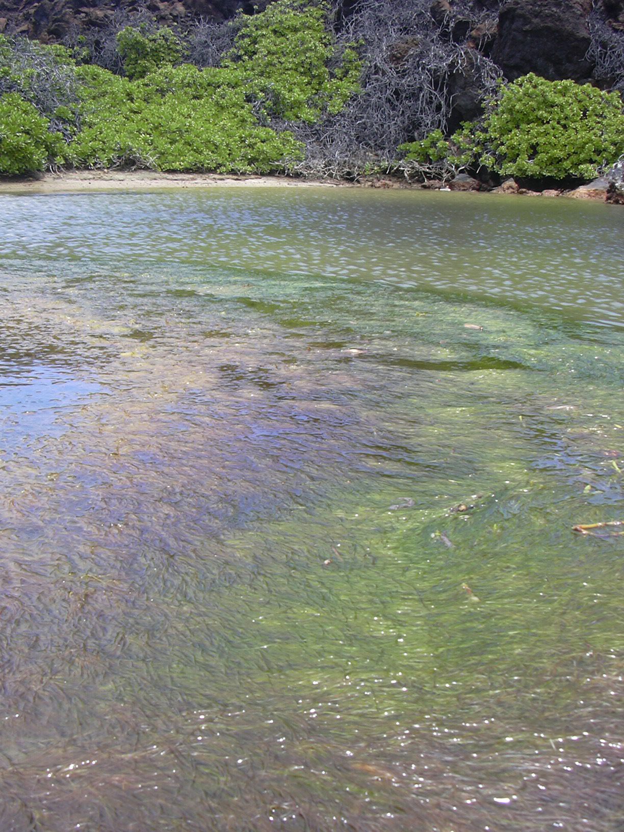 Ruppia maritima (in anchialine pond). Location: Maui, LaPerouse